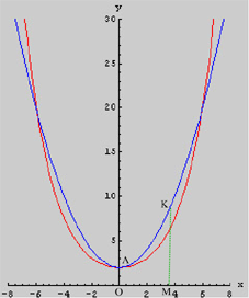 Graphics output Mathematica 4.1 L. Fransen (Livinus)